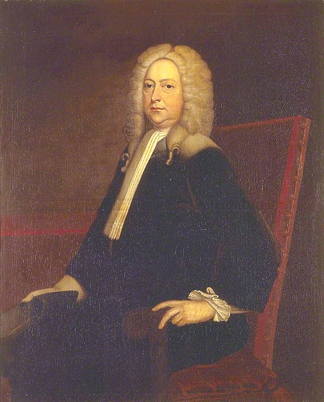 portrait of Francis Drewe (c.1674-1734) of The Grange, Broadhembury, Devon, Member of Parliament for Exeter 1713-1734.(Source:History of Parliament biography [1]) He matriculated at Corpus Christi, Oxford on 2 August 1690, aged 16, and entered the Middle Temple in 1691 and was called to the bar in 1697 and was appointed a bencher in 1723. On 7 January 1695 he married Mary Bidgood (d.1729/30), a daughter of Humphrey Bidgood of Rockbeare, near Exeter. His granddaughter was Mary Drewe (d.1830) who in 1782 married John I Fownes Luttrell (1752–1816) of Dunster Castle in Somerset, MP for Minehead (1776–1816). Property of National Trust, Dunster Castle Collection. Provenance: given in 1981 by Lieutenant-Colonel Geoffrey Walter Fownes Luttrell of Dunster Castle.